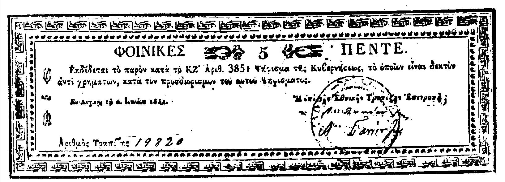 A paper bill of Five Phoenix. The Phoenix was the first currency of the modern Greek state, 1828 The text reads as follows: ΦΟΙΝΙΚΕΣ 5 ΠΕΝΤΕ (FOINIKES 5 FIVE) Εκδίδεται το παρόν κατά το ΚΖ' Αριθμ. 385 Ψήφισμα της Κυβερνήσεως το οποίον είναι δεκτόν αντί χρημάτων, κατά τον προσδιορισμόν του αυτού Ψηφίσματος Εν Αιγίνη, τη ? Ιουνίου 18?? Η υπό της Εθνικής Τραπέζης Επιτροπή PHOENIX 5 FIVE The present is issued according to the ... 385 Resolution of the Government which is acceptable instead of money, according to the definition of that same Resolution In Aegina, the ? June 18?? The Commission under the National Bank